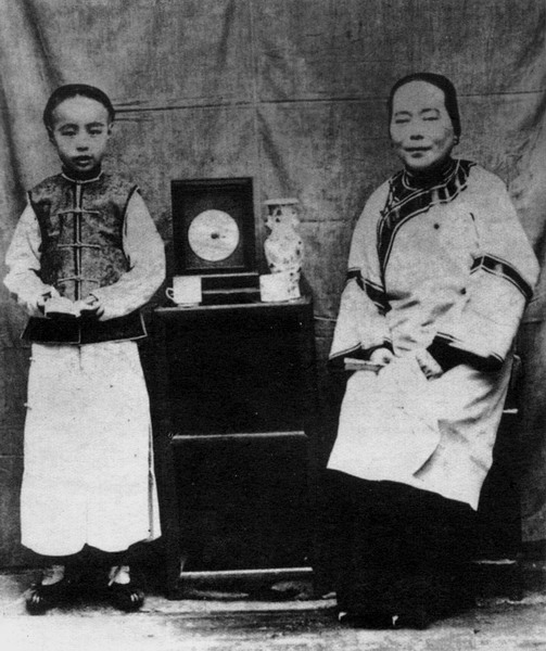 Gu Jiegang and his grandma